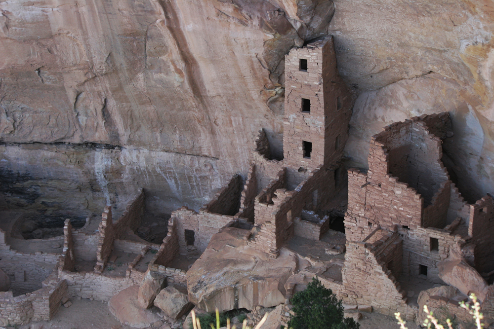 Square Tower House : Mesa Verde NP